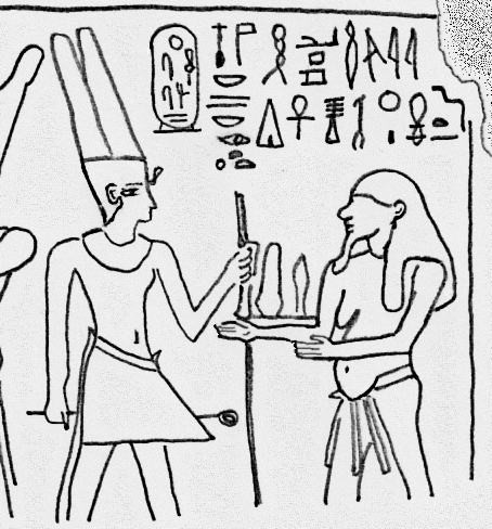 Drawing (closeup) of the ancient Egyptian Inundation Stele. Pharaoh Sekhemre Seusertawy Sobekhotep VIII (left) facing Hapi, god of the Nile floods (right). From Karnak, within the third pylon, reign of Sobekhotep VIII (Year 4), 16th Dynasty, Second Intermediate period. [ref: Abdul-Qader in ASAE 59 (1966), pp.146-8; pls. 3-4]